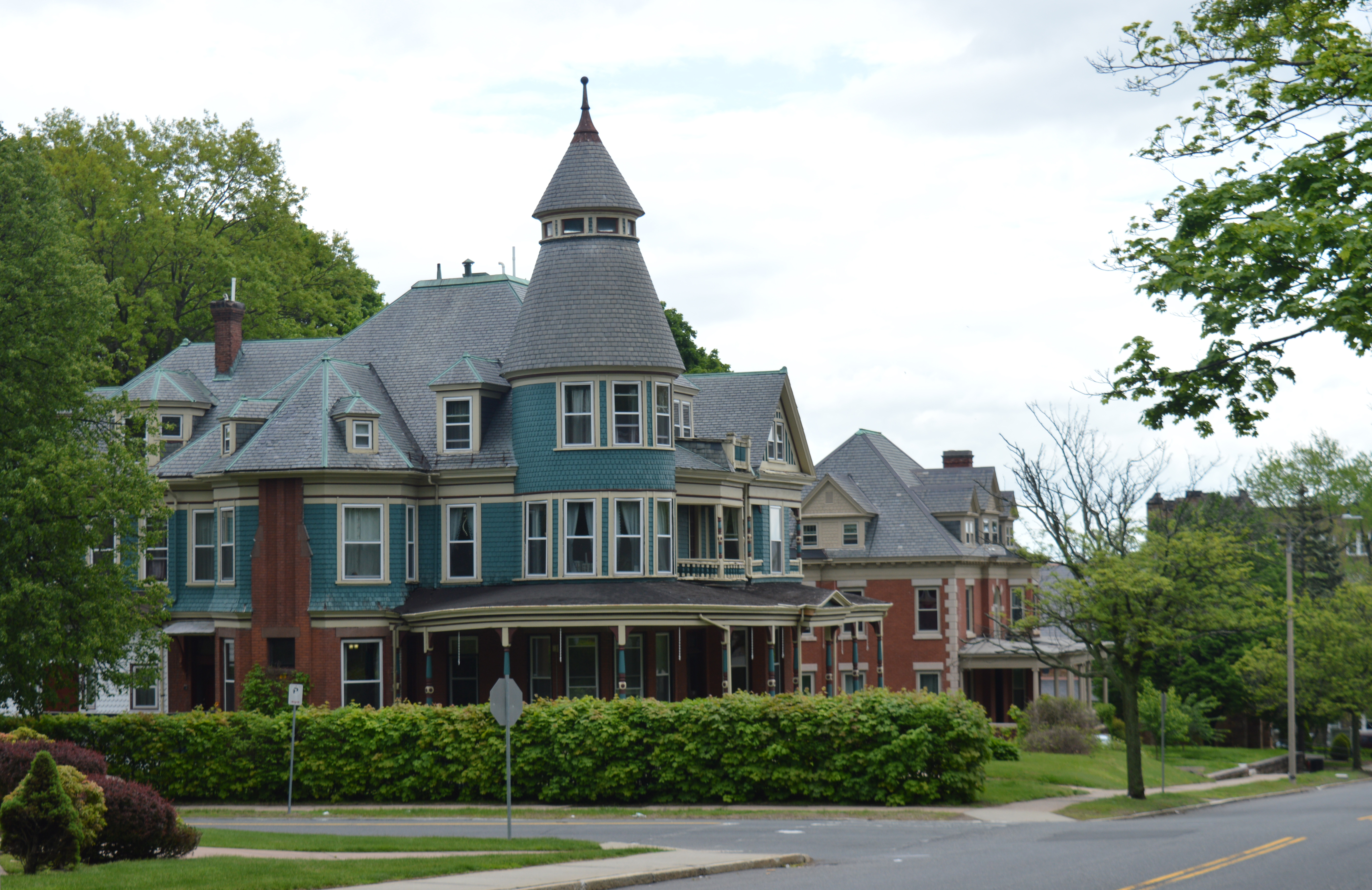 The Casper Ranger House in Holyoke, Massachusetts, designed and built circa 1890 by its namesake, it is a rare example of the contractor's work as architect. Casper Ranger and his company later managed by his sons were largely responsible for the construction of the Mount Holyoke College campus in South Hadley.